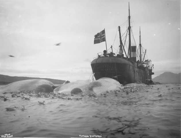 Norwegian whaling factory Bucentaur (1875) in Bellsund, Spitsbergen.